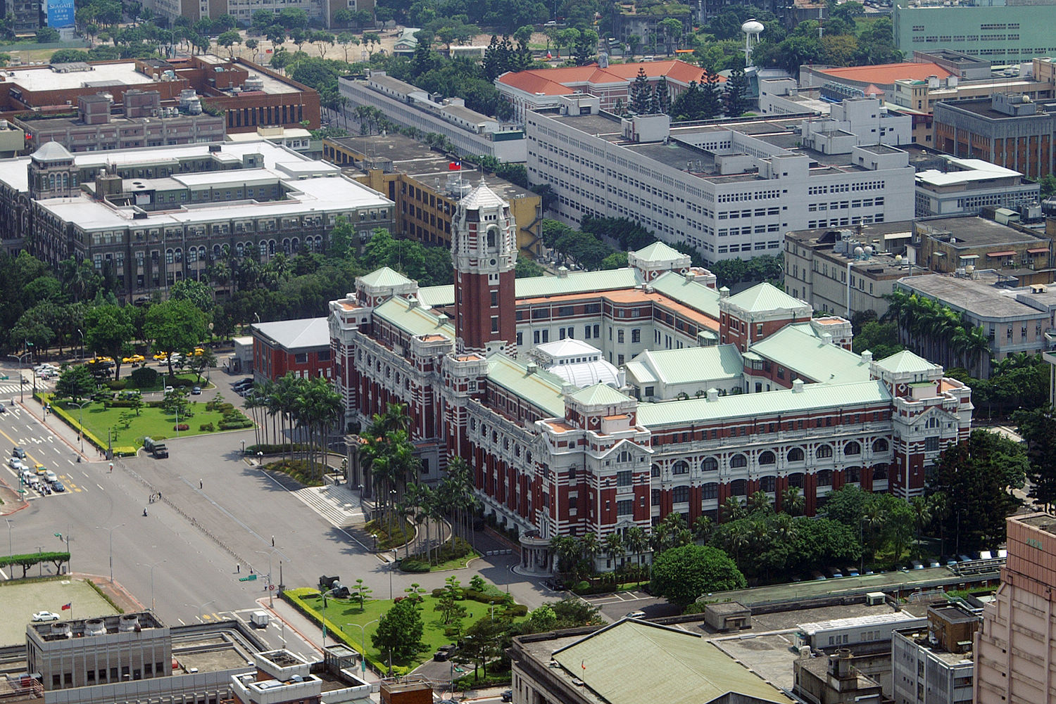 ROC Presidential Office Building, Taipei. Bân-lâm-gú: Tī Tâi-pak-tshī ê Tiong-huâ Bîn-kok Tsóng-thóng-hú. 佇台北市的中華民國總統府。